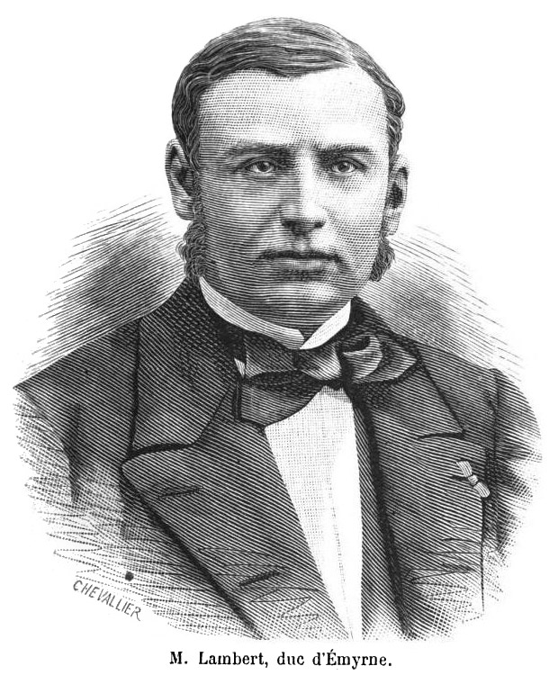 Engraving of Joseph-François Lambert, author of the Lambert Charter and creator of the Companie de Madagascar.